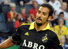 Celso Borges, AIK midfielder.